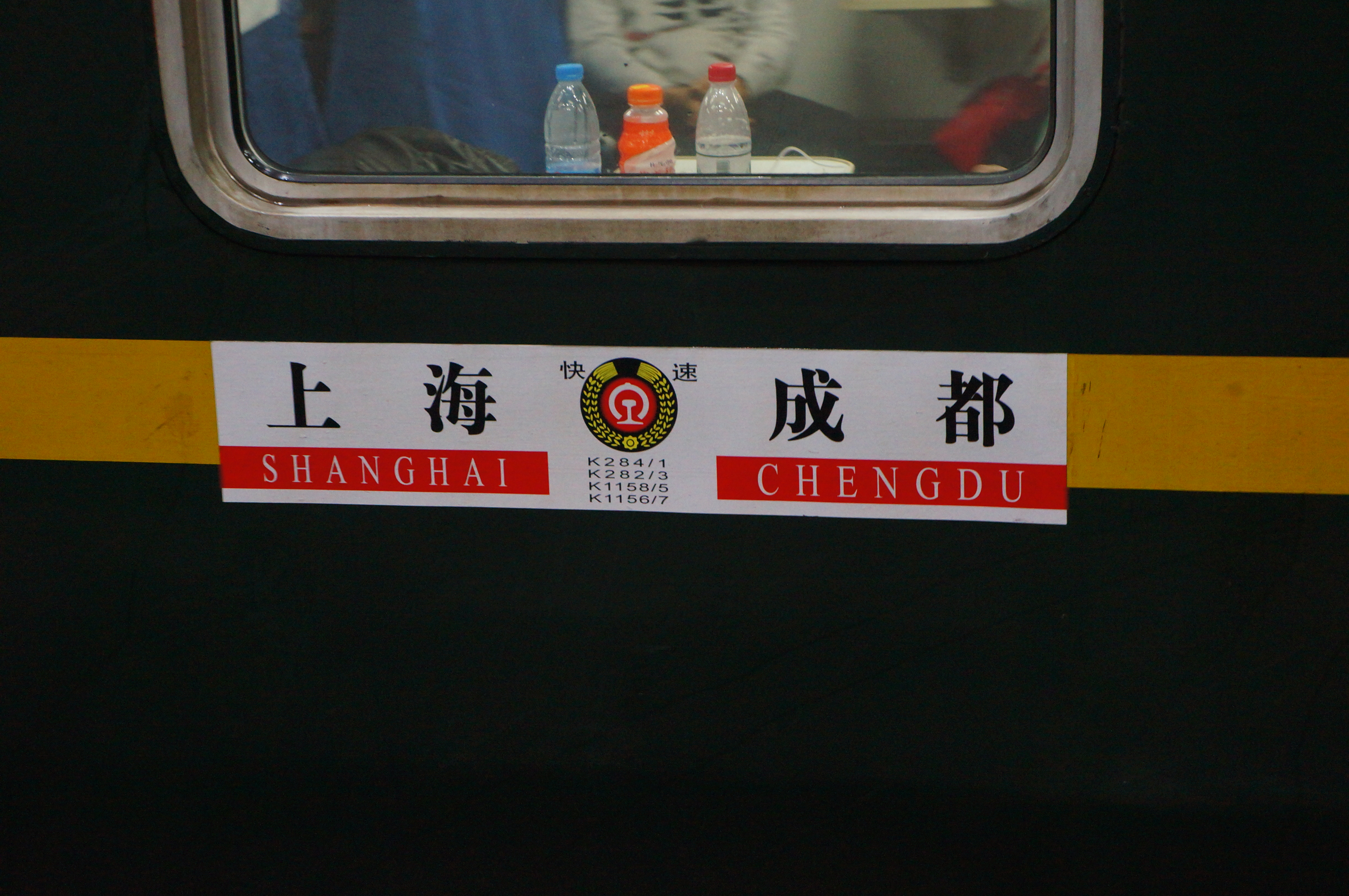 Did not realize those two train using the same rolling stock...Taken at Nanjing Station as K283